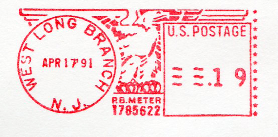 Meter stamp catalog image, USA type IA10